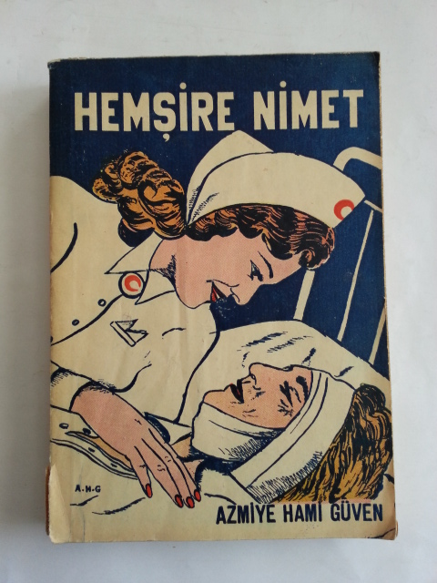 Cover of the 1951 novel by Azmiye Hami Güven.